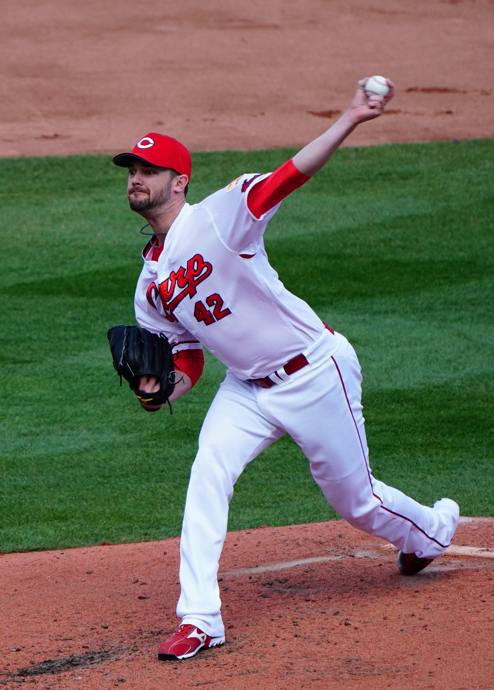 Kris Johnson, pitcher of the Hiroshima Toyo Carp, at Mazda Zoom-Zoom Stadium Hiroshima